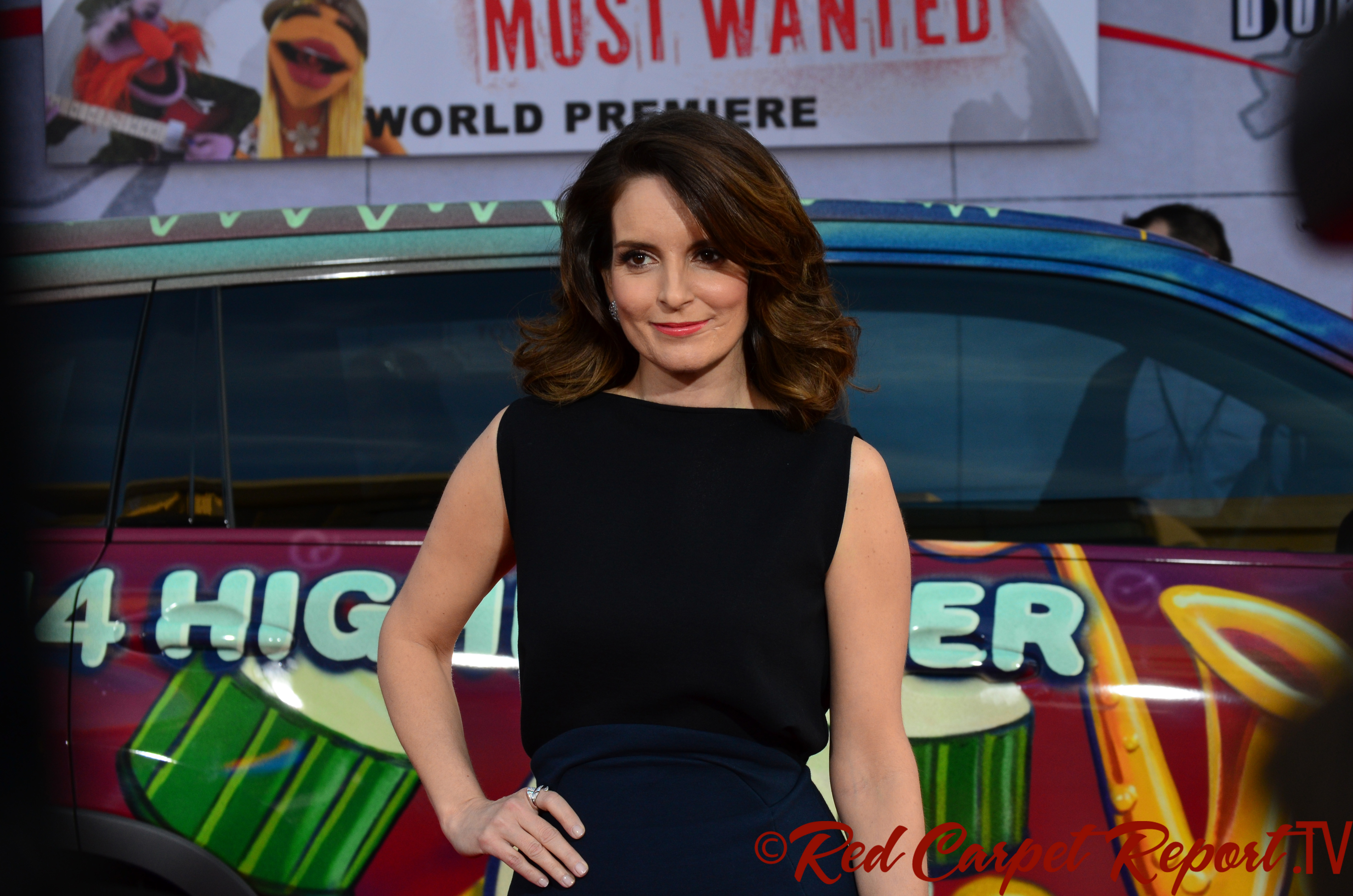 Actress Tina Fey at the Muppets Most Wanted Premiere at the El Capitan Theater in Hollywood on March 11, 2014